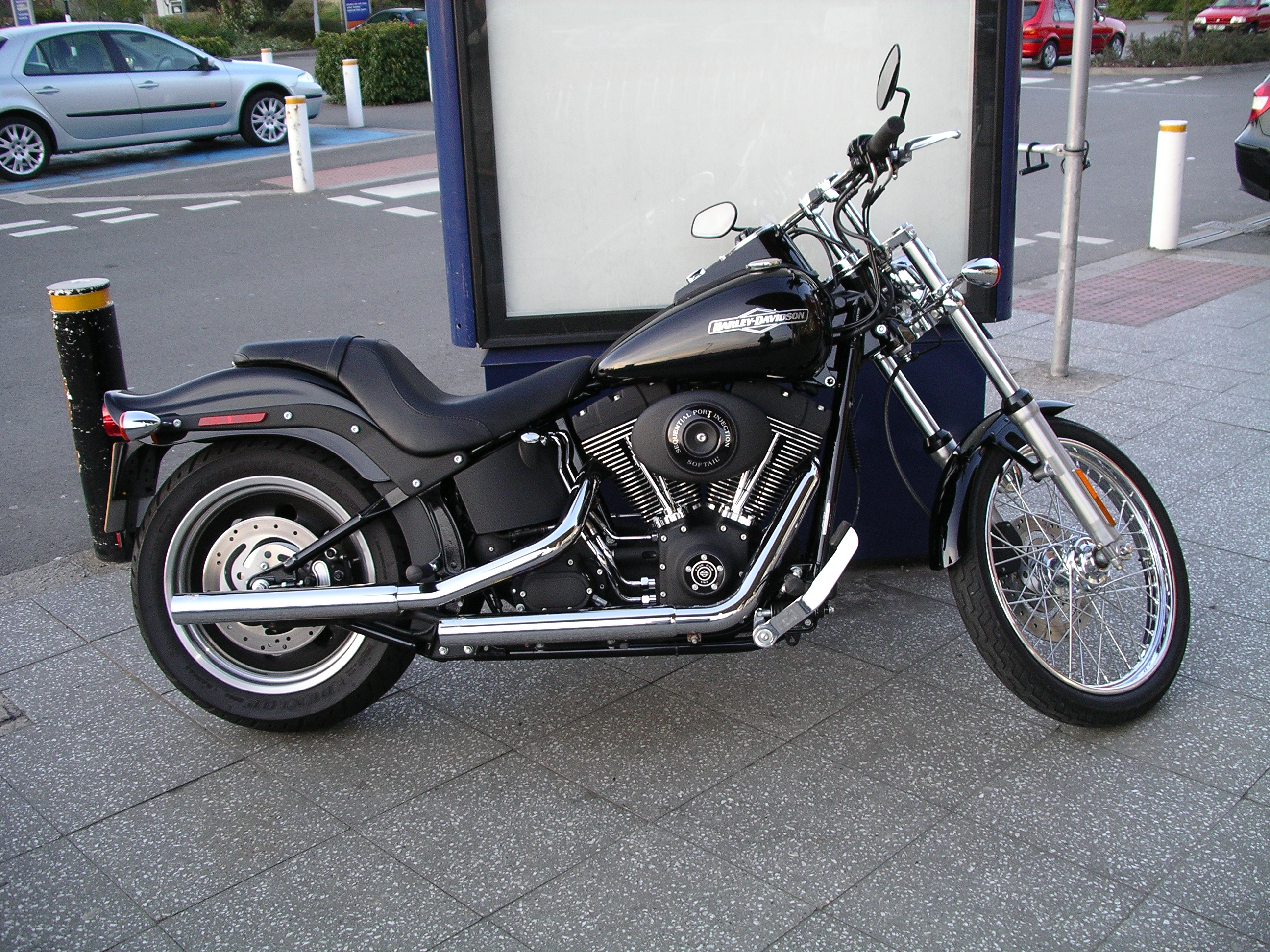 Photo of a Harley-Davidson motorcycle. Photo taken in Coventry, England.